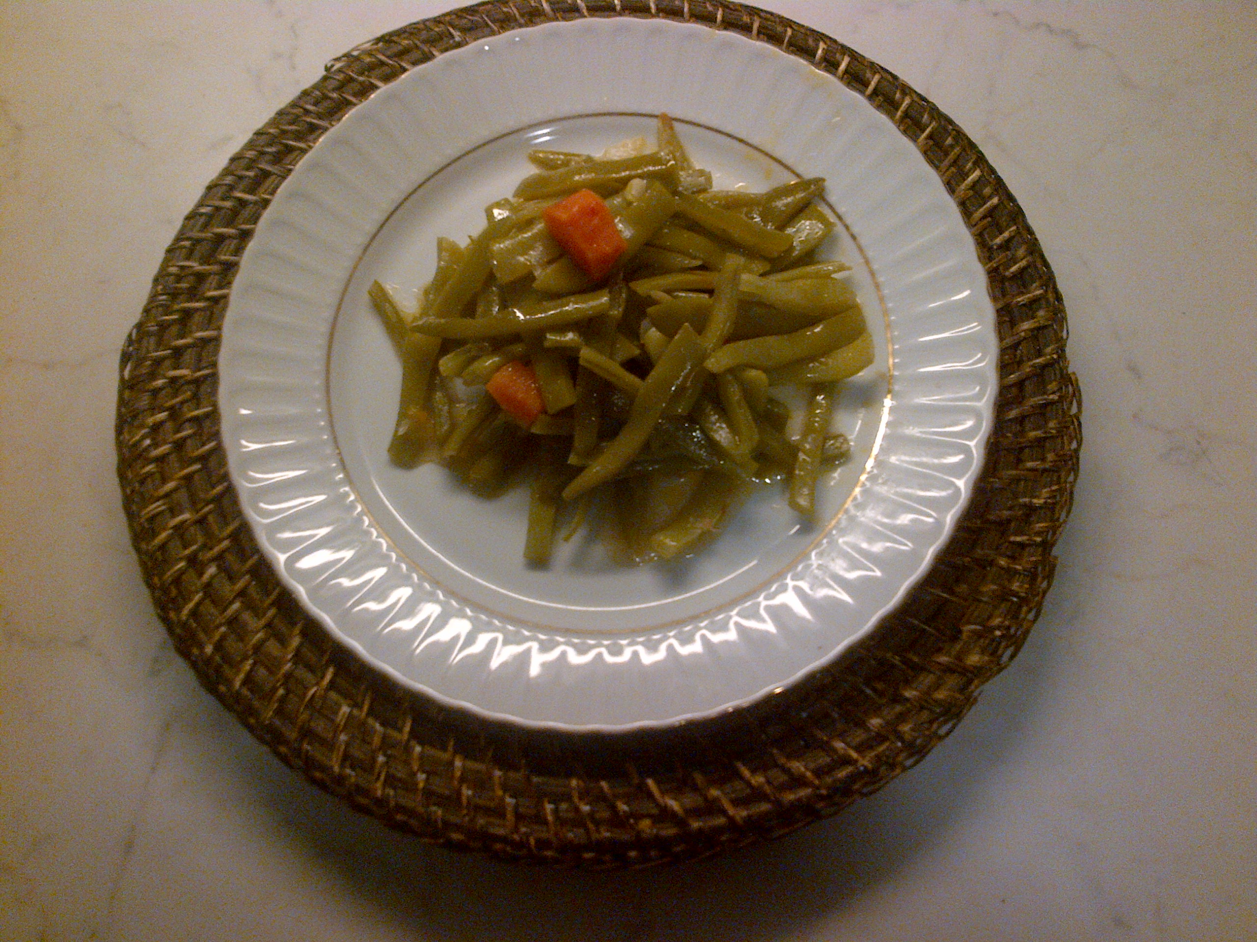 "Zeytinyağlı taze fasulye" or "zeytinyağlı yeşil fasulye" is an olive oil cooked - cold served green bean dish from the Turkish cuisine.